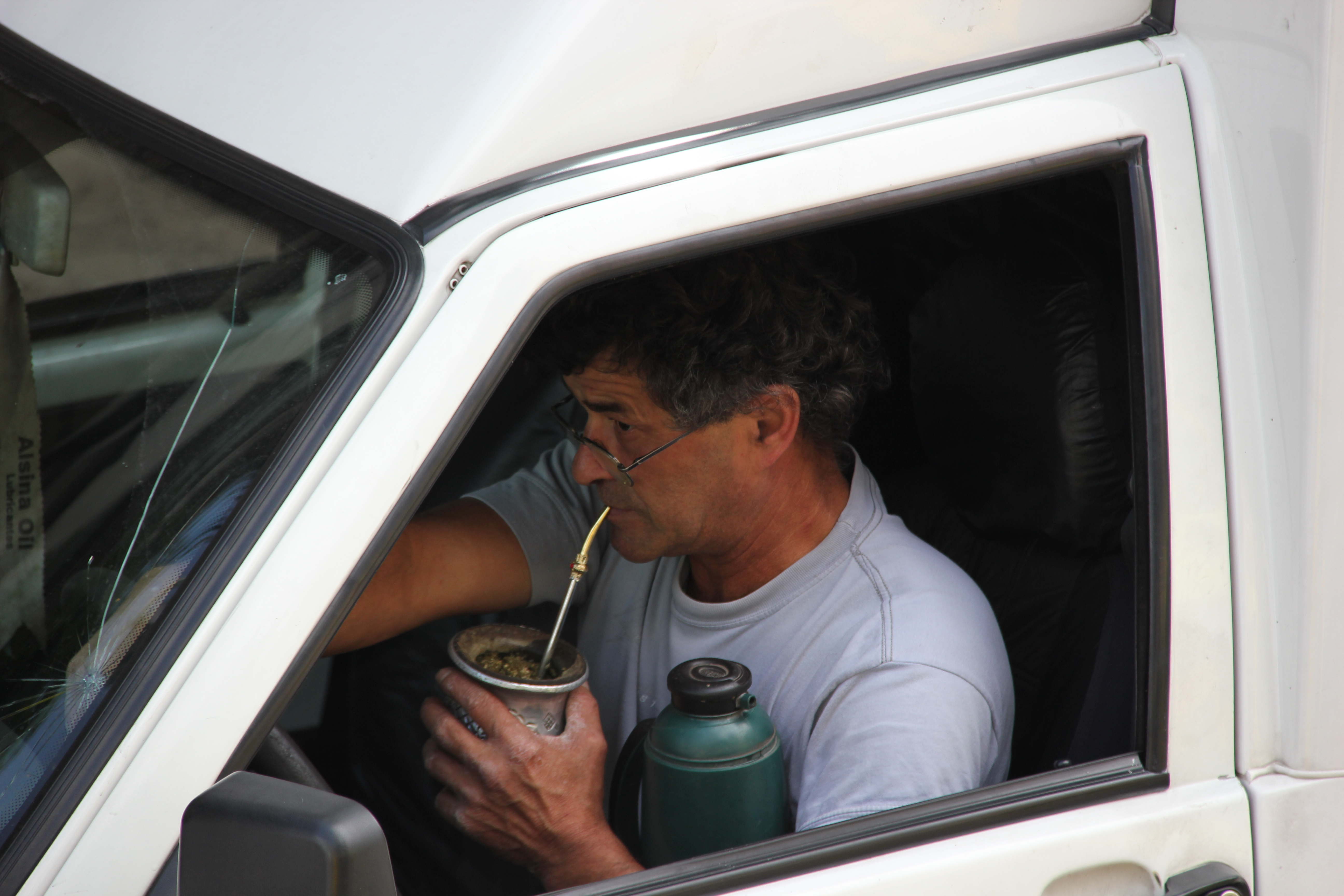 Man drinking mate in his car, Buenos Aires